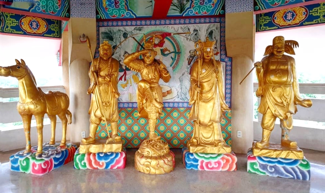 Five deities from China's Journey to the West